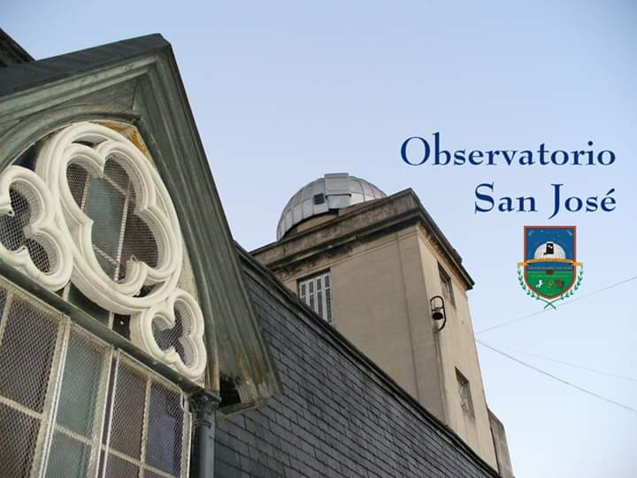 View of Saint Joseph Observatory